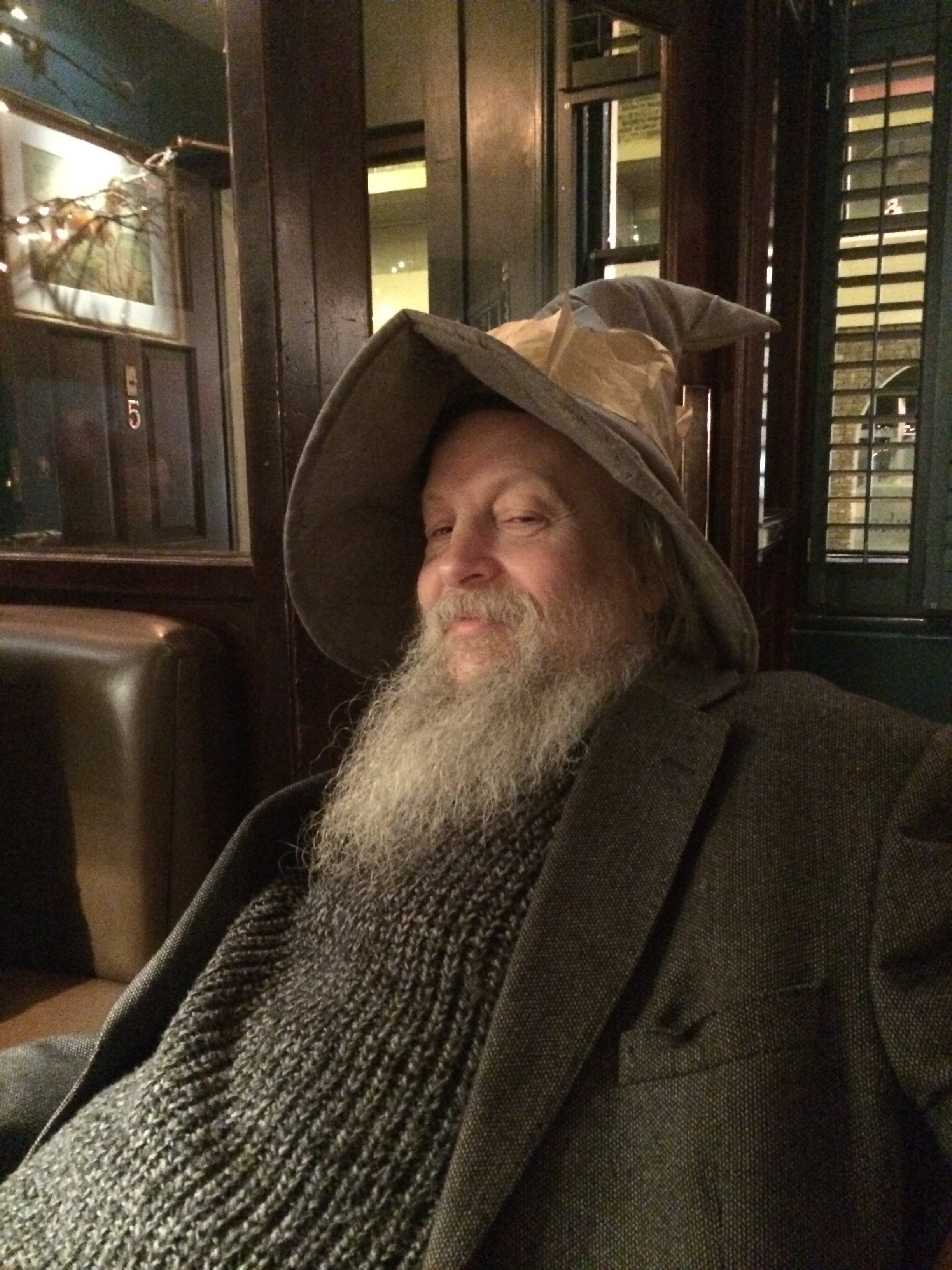 Professor Michael Goldsmith